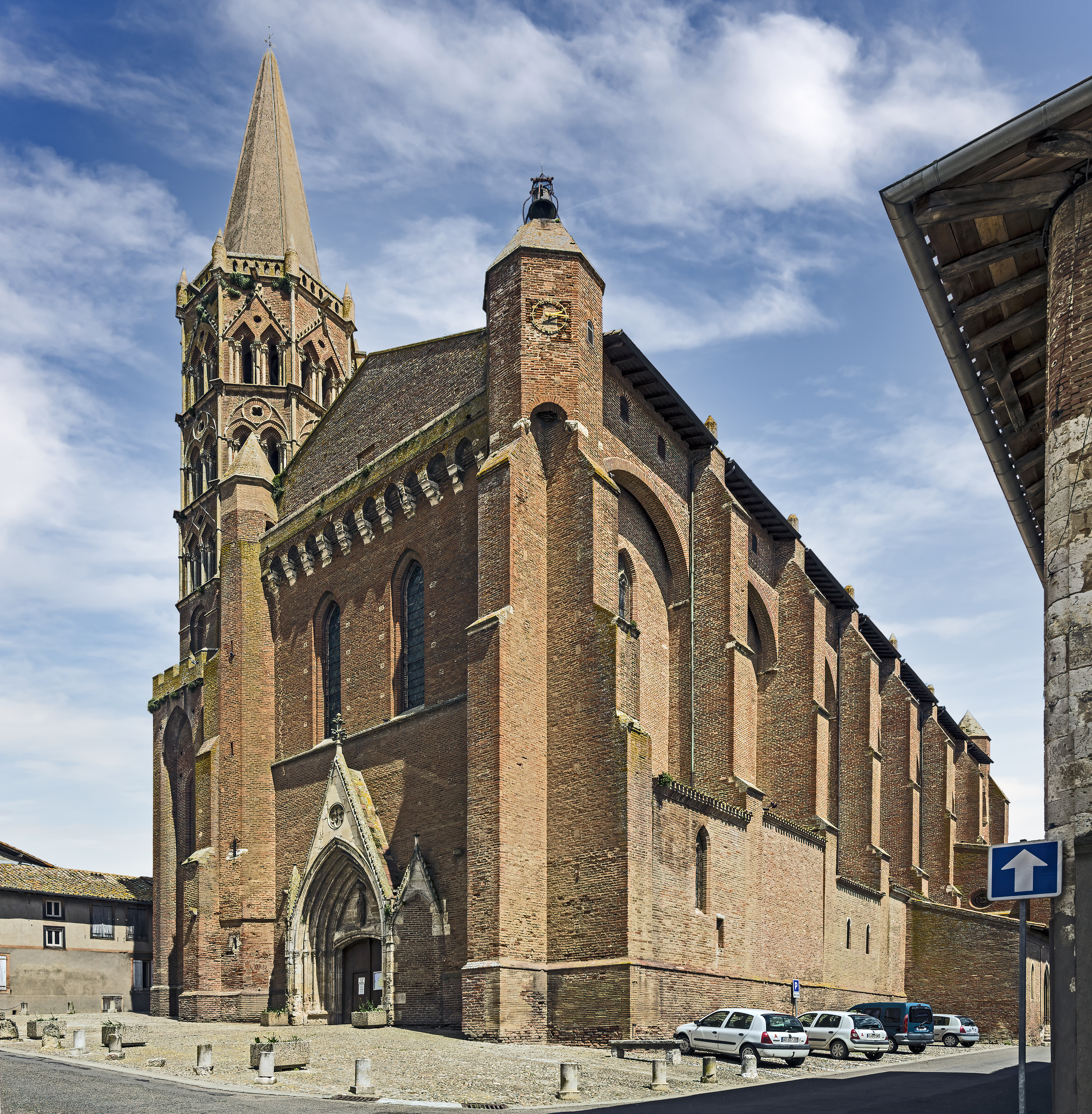 The facade of church Notre-Dame de l'Assomption of Beaumont-de-Lomagne fourteenth century.